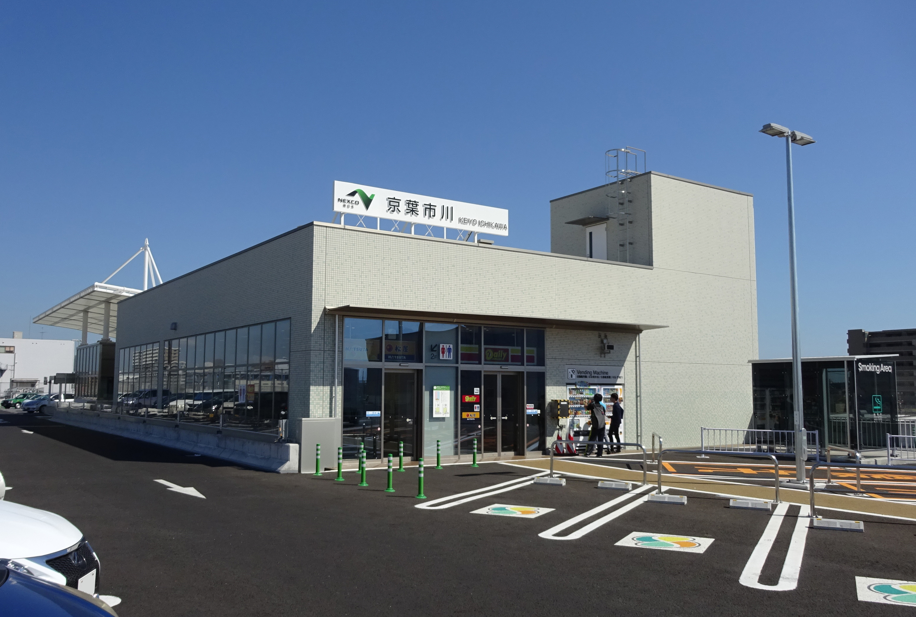 Keiyo-Ichikawa Parking Area